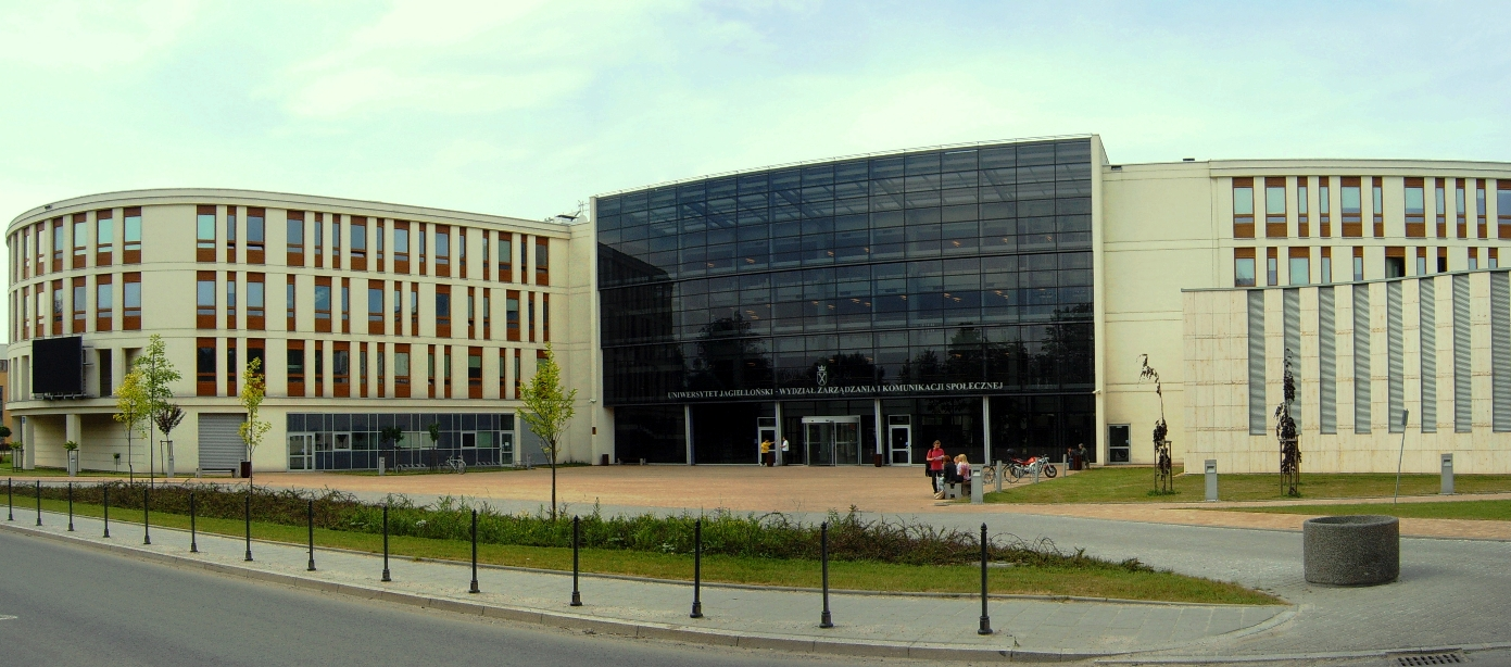 Campus of Jagiellonian University, Faculty of Management and Social Communication (main entrance)